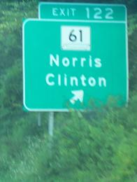 Sign on I-75 for Tennessee State Route 61.